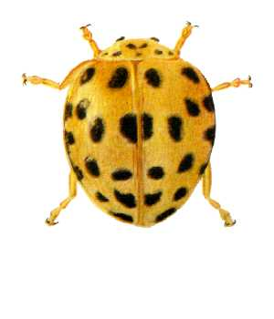 Henosepilachna vigintioctopunctata, binomial authority Fabricus, the twentysix-spotted potato ladybird.